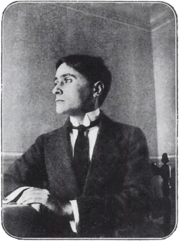 Portrait photograph of French Cubist painter Jean Metzinger (c.1912)